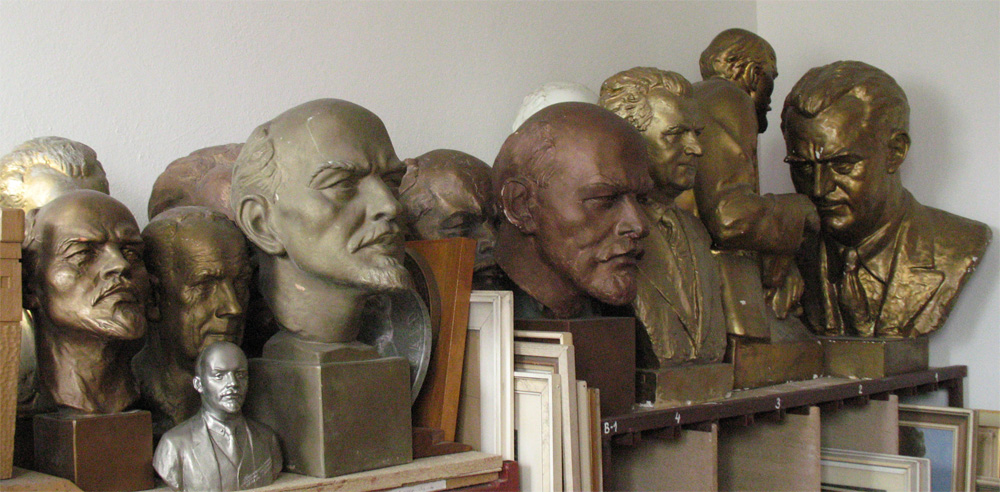 statues in depository